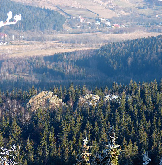 Rocks "Trzy Siostry" (Three Sisters) in Bialskie Mountains (East Sudetes, Poland). View from top of Łysiec